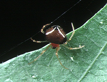 female Chrysso albipes brown type from Okinawa.